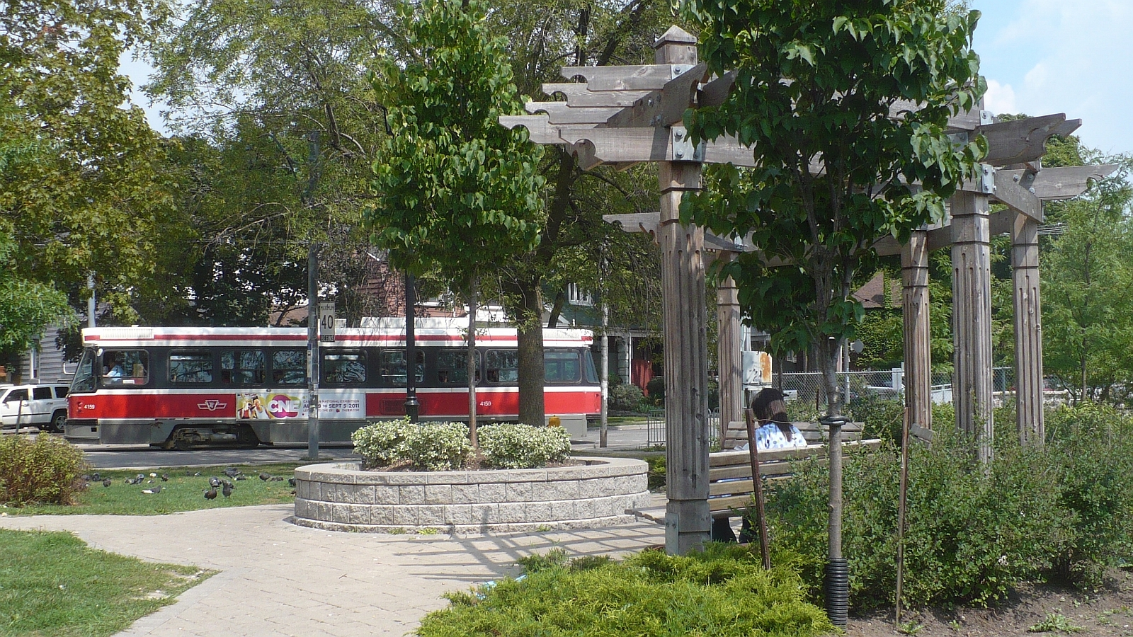 Broadview Subway Station Park is on the north side of the TTC subway station in Toronto